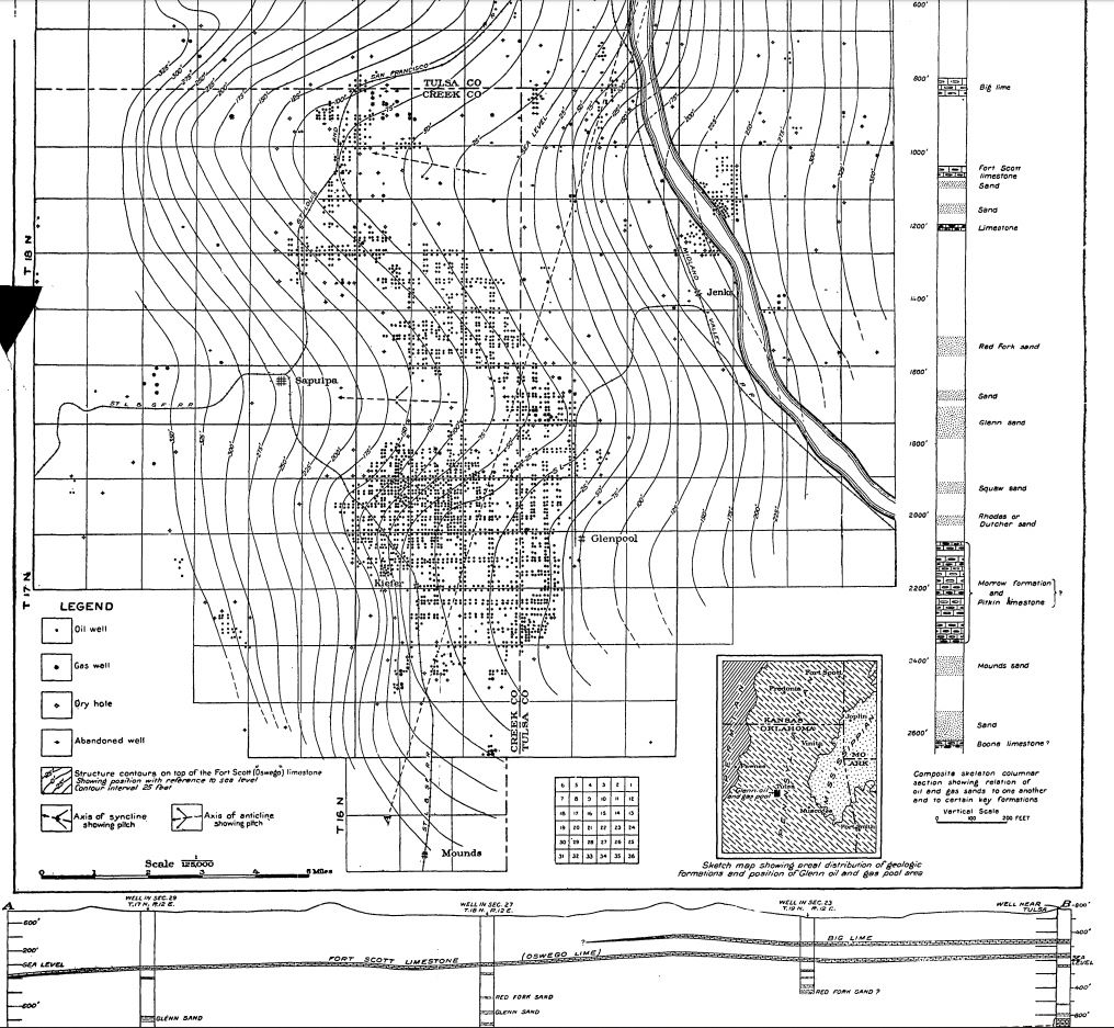 Glenn Pool geologic map